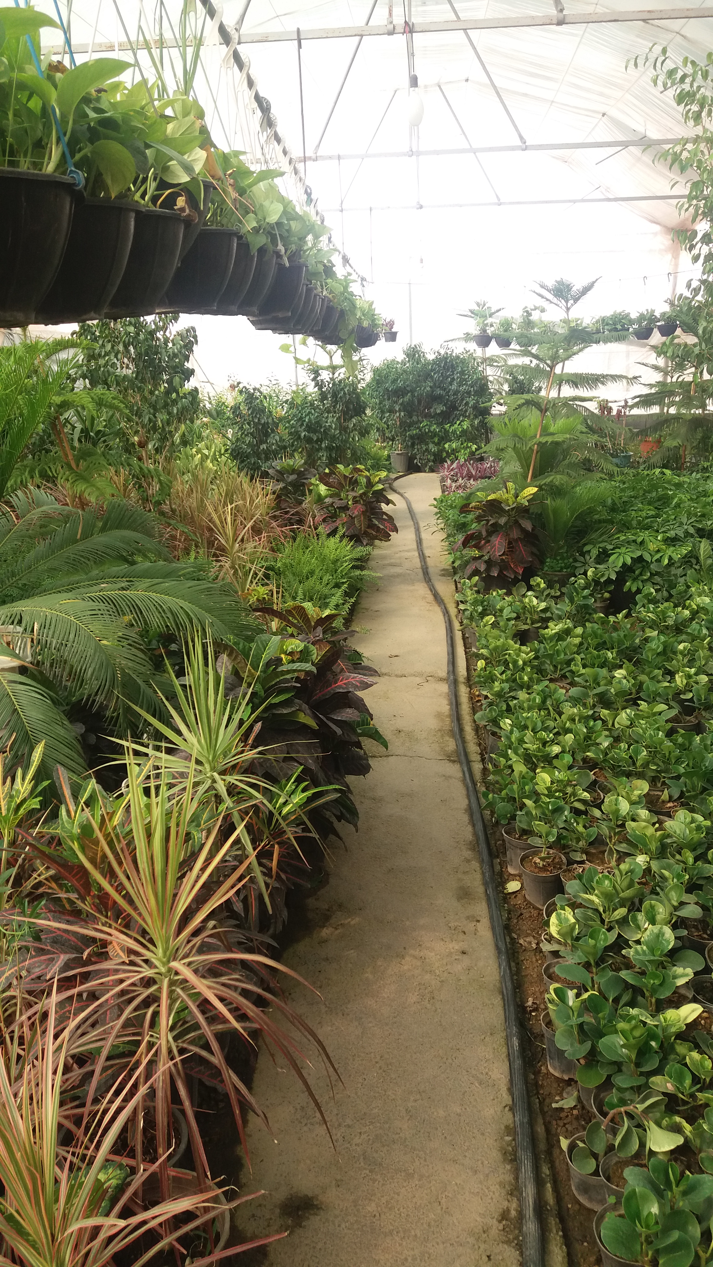 Greenhouses in Mahallat, Iran - 2016